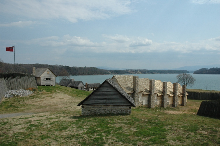 Interior of the fort taken from Bastion King George. The building in the front is the powder magazine. Behind that are the "new" barracks. The building to the left is the Commandant's Quarters Photo by Bill Porter